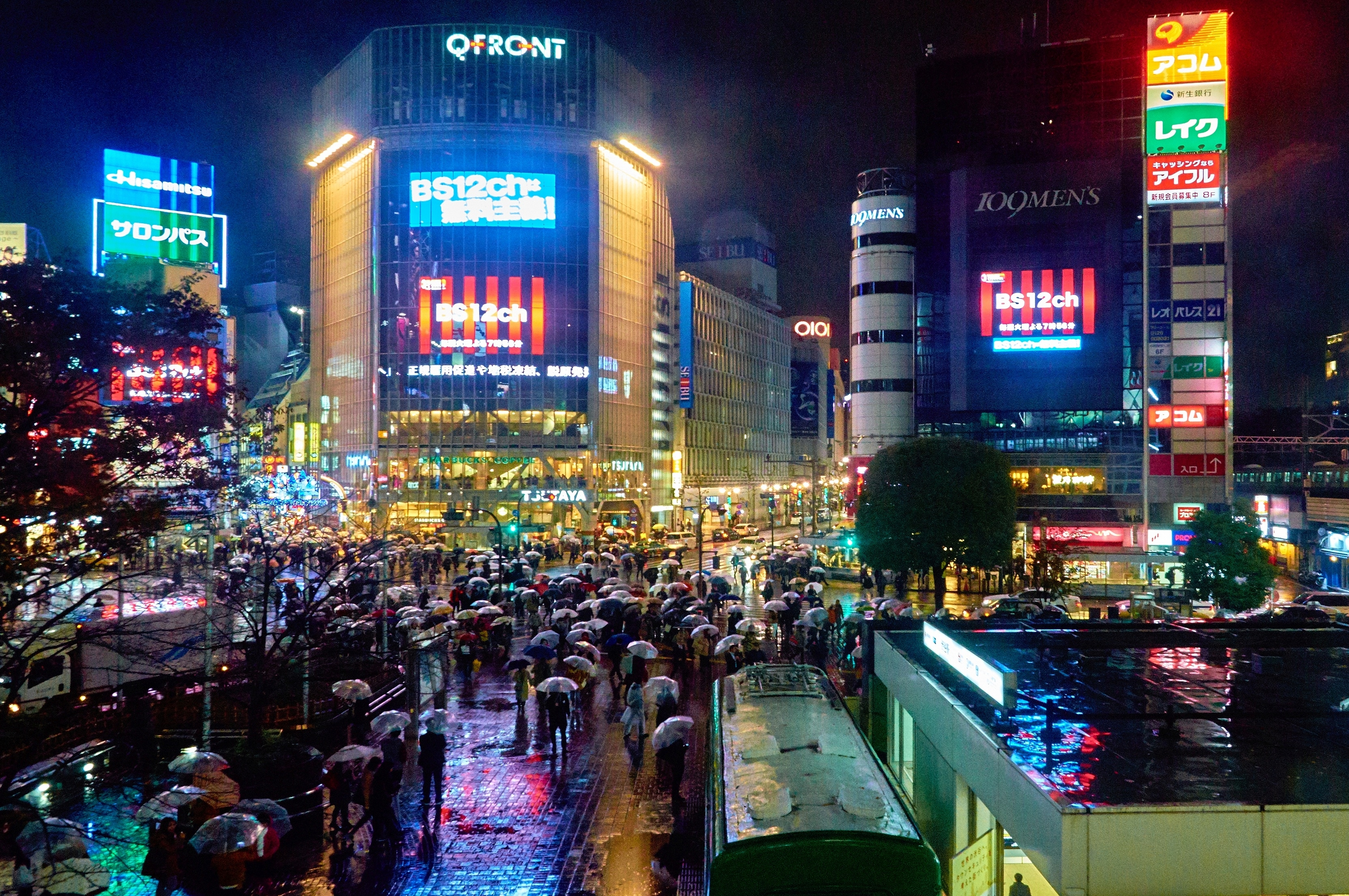 the area of Shibuya crossing during a rainy evening with many umbrellas and reflections on the ground